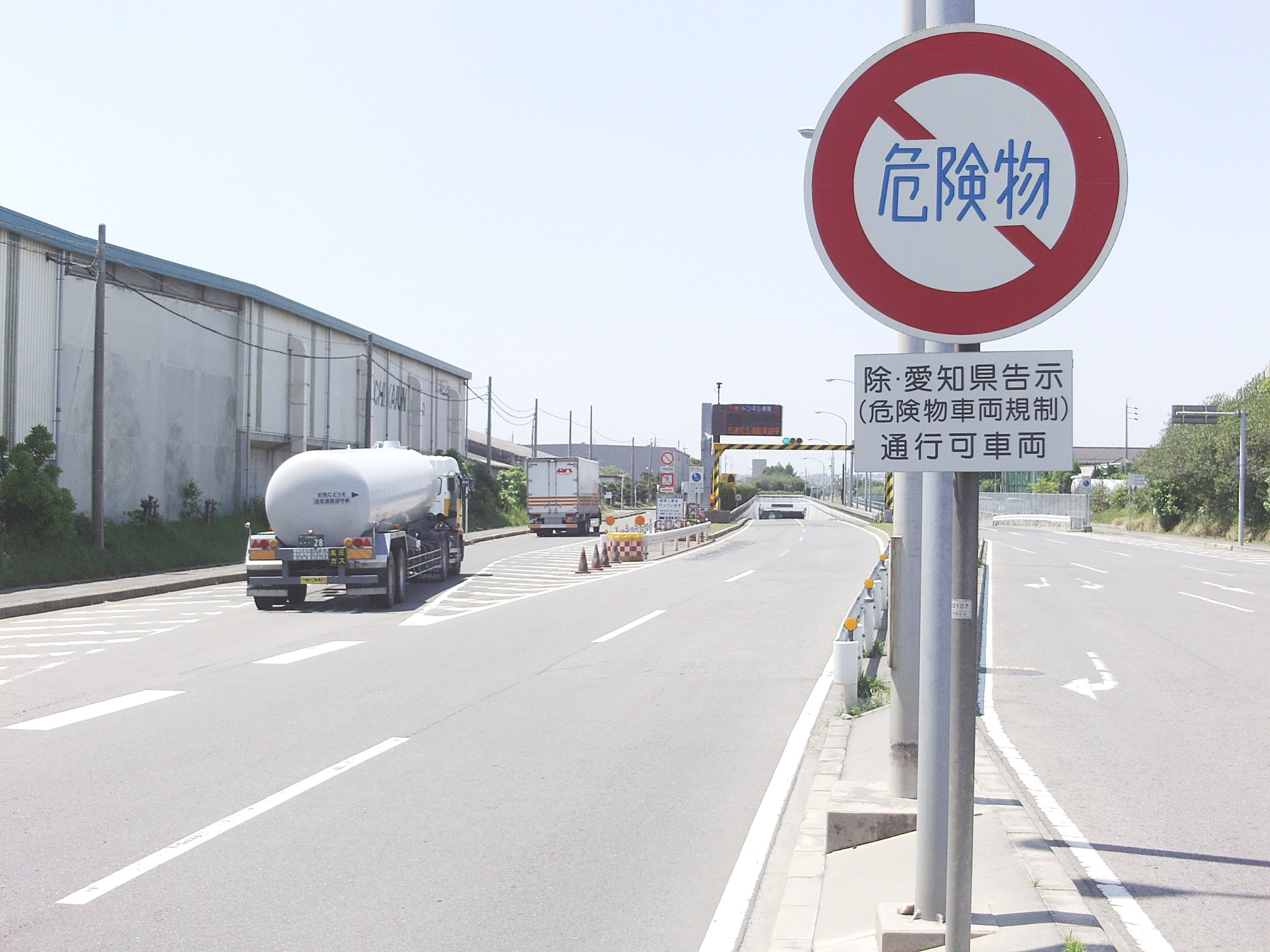 Aichi prefectural road No.265 in Minatohonmachi, Hekinan, Aichi. Kinuura tunnel east side.